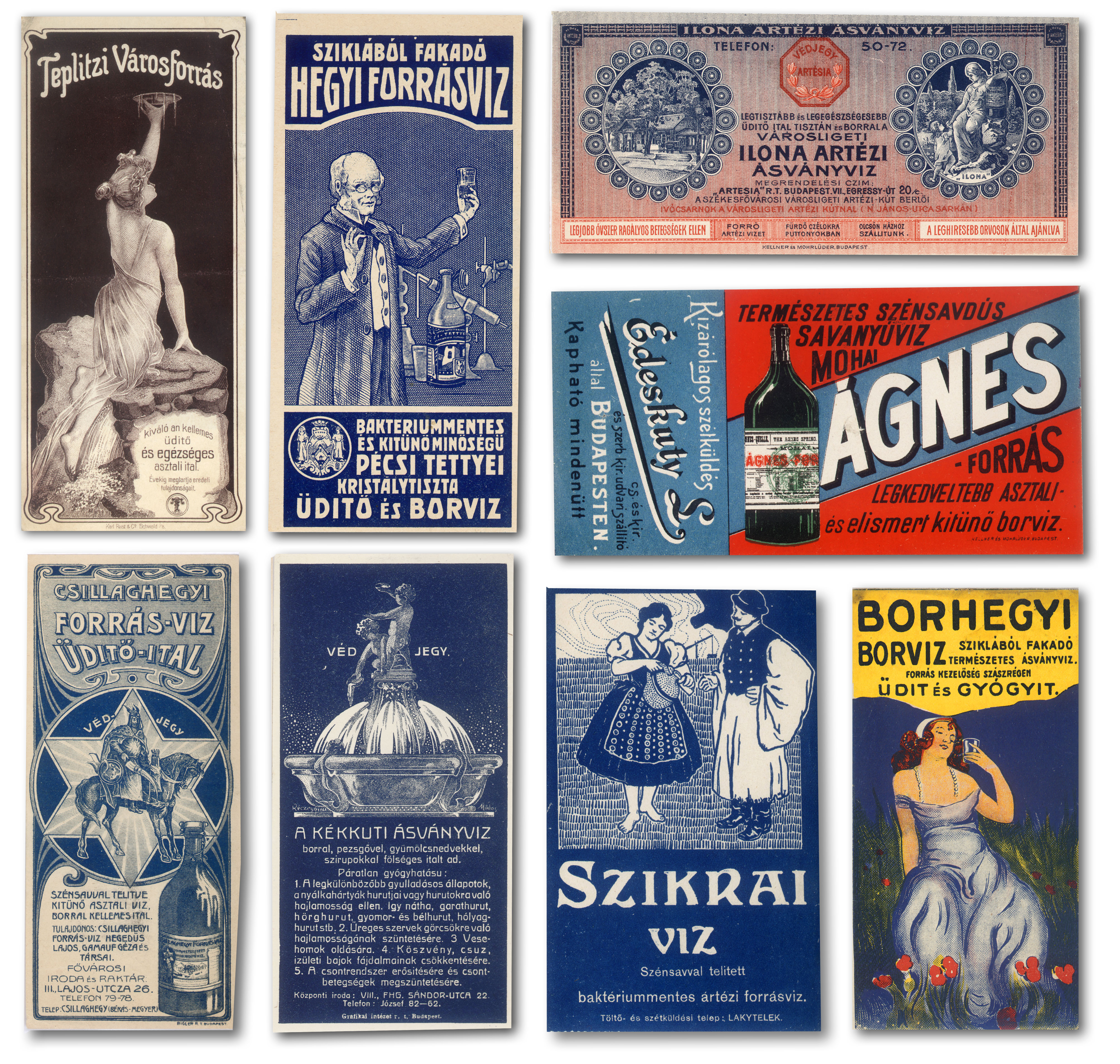 Different Hungarian mineral water firms' advertisements, before 1920.